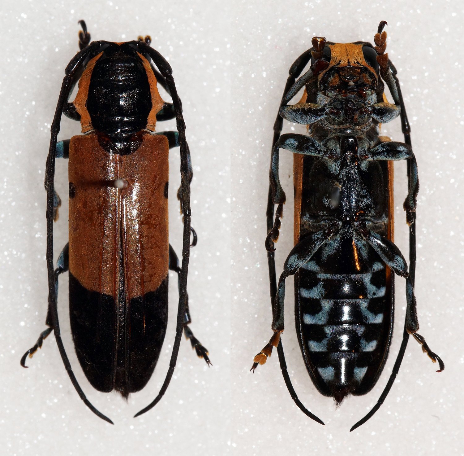 Thomson,1857 Sex: Male Data: 10-2012 - Ebogo Village - Cameroon Size: 18mm